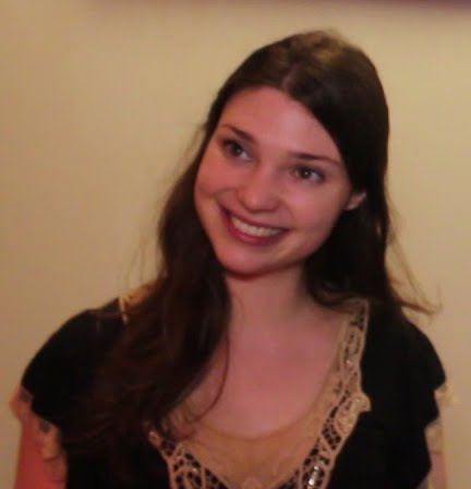 Emerald O'Hanrahan(Silk/Casualty) talks to W!ZARD Radio Media about her recent work at the Triforce Short Film Festival Awards 2014. The awards ceremony was held at BAFTA, London on the 22nd November 2014.